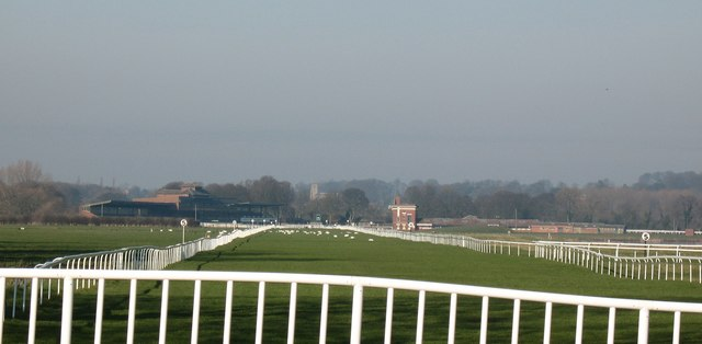 Six furlongs from the finish The southernmost point of Ripon racecourse looking north along the straight towards the distant grandstand. A large group of swans linger between the 4th and 3rd furlong markers, whilst in the far distance is the tower of Sharow church.